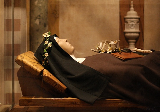 St. Claire of Assisi relics at Assisi (Basilica di Santa Chiara)